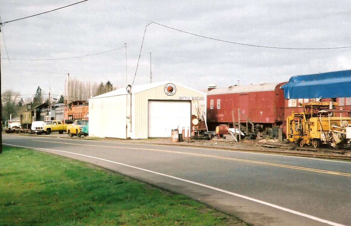 Small shop facility for L&C Ry. Wife created image, transferred ownership to me without restriction.